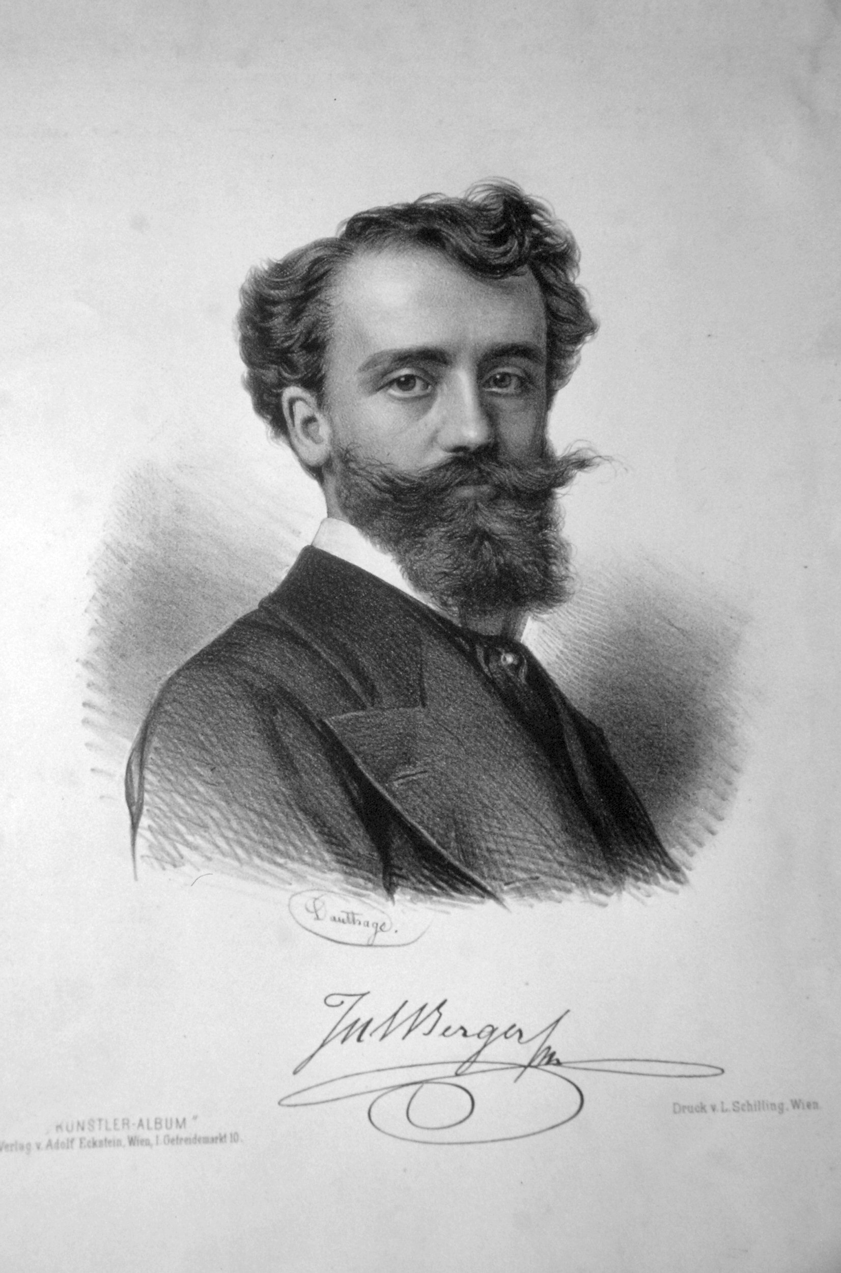 Julius Viktor Berger (1850-1902), Painter Lithograph by Adolf Dauthage, about 1880 From "Künstler-Album" published by A. Eckstein, Vienna